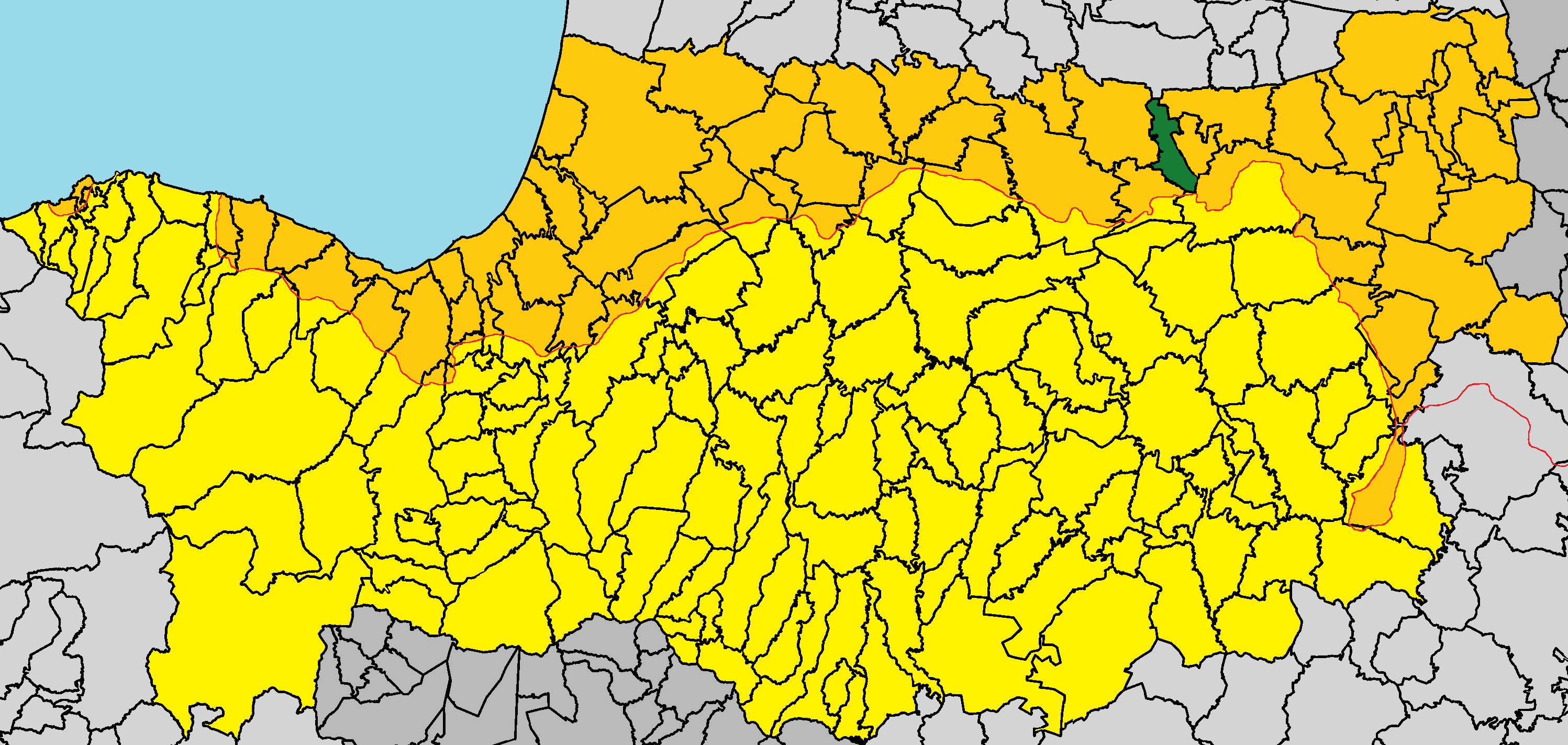 Ortaköy in Nicosia District (de jure).